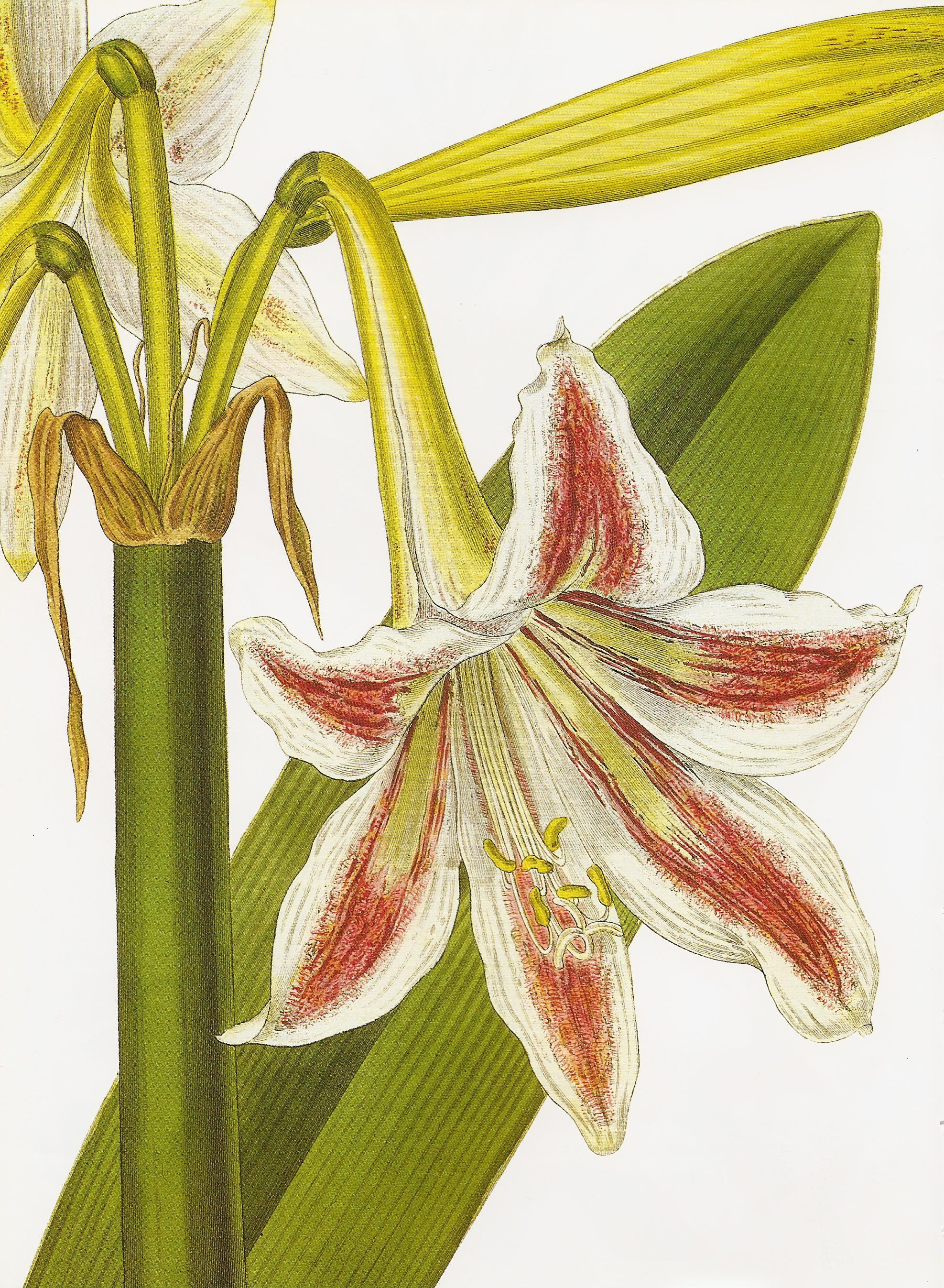 Amaryllis vittata major, now classified as a form of Hippeastrum vittatum, a hand-coloured engraving after a drawing by John Lindley from his Collectanea botanica (1821)